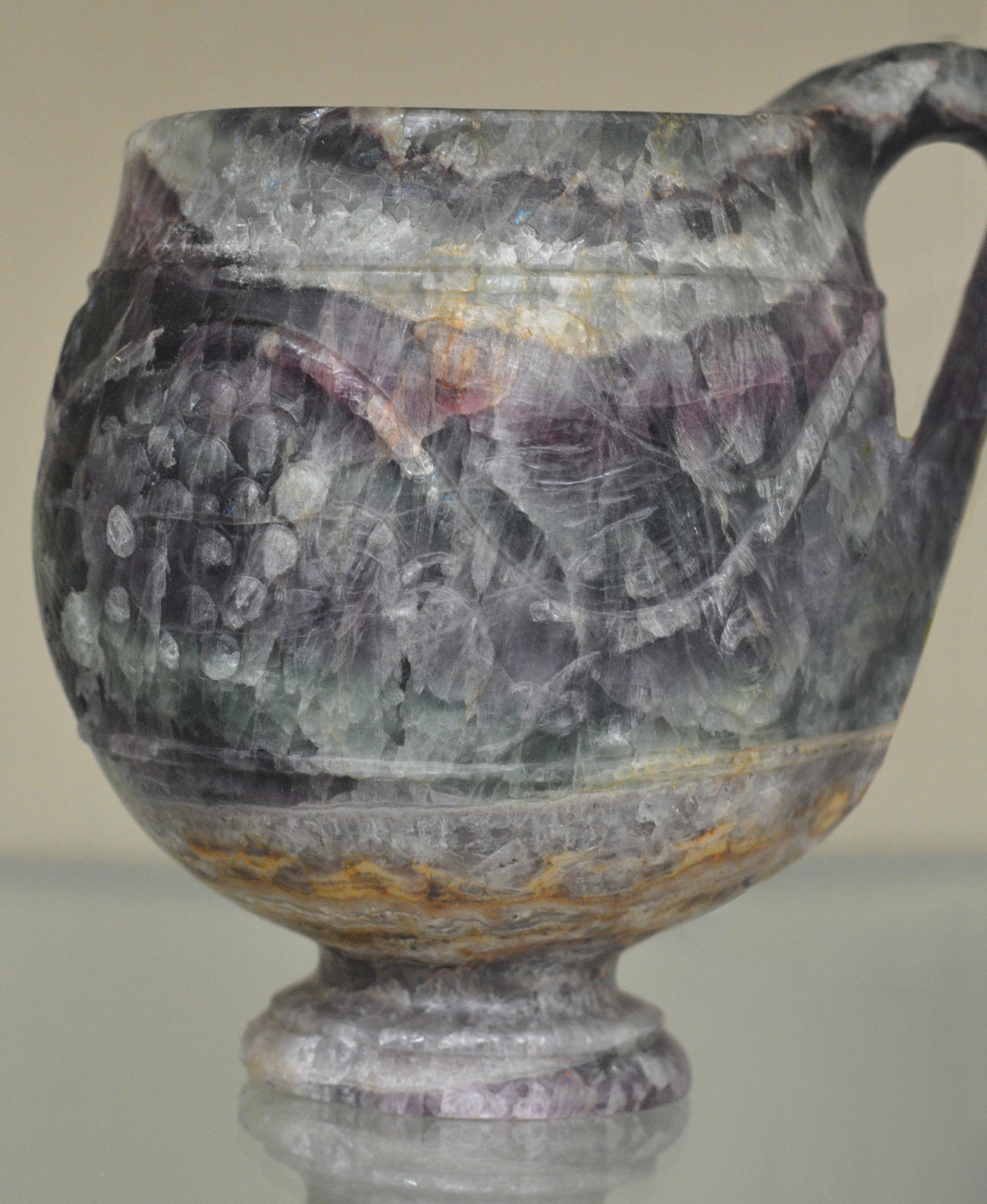 The 'Barber Cup', a Roman-era drinking vessel made of fluorite, on display in Room 70 of the British Museum in London. This photo taken at a moderate depth of field with a high ISO setting, so that much of the design is in focus but the image is relatively noisy. Alternate at Barber Cup Low ISO Shallow Field